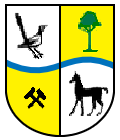 Coat of arms of Elsterheide in Saxony, Germany. Hornjoserbsce: Wopon gmejny Halštrowskeje Hole.